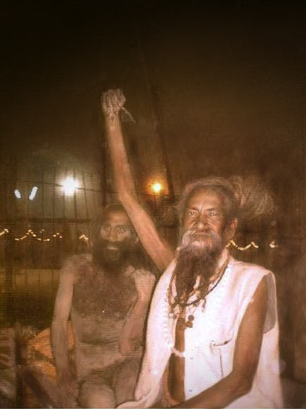 by Hanumandas - Baba Amar Barati at the Kumbha Mela 2001, is raising his arm since 25 years